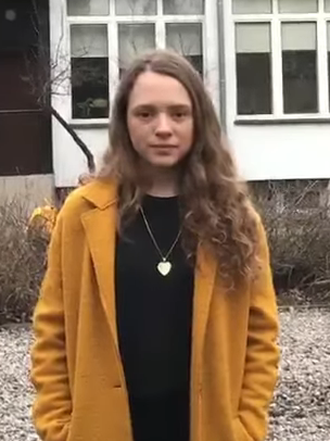 Shira Haas promoting The Zookeeper's Wife at the Warsaw Zoo in 2017